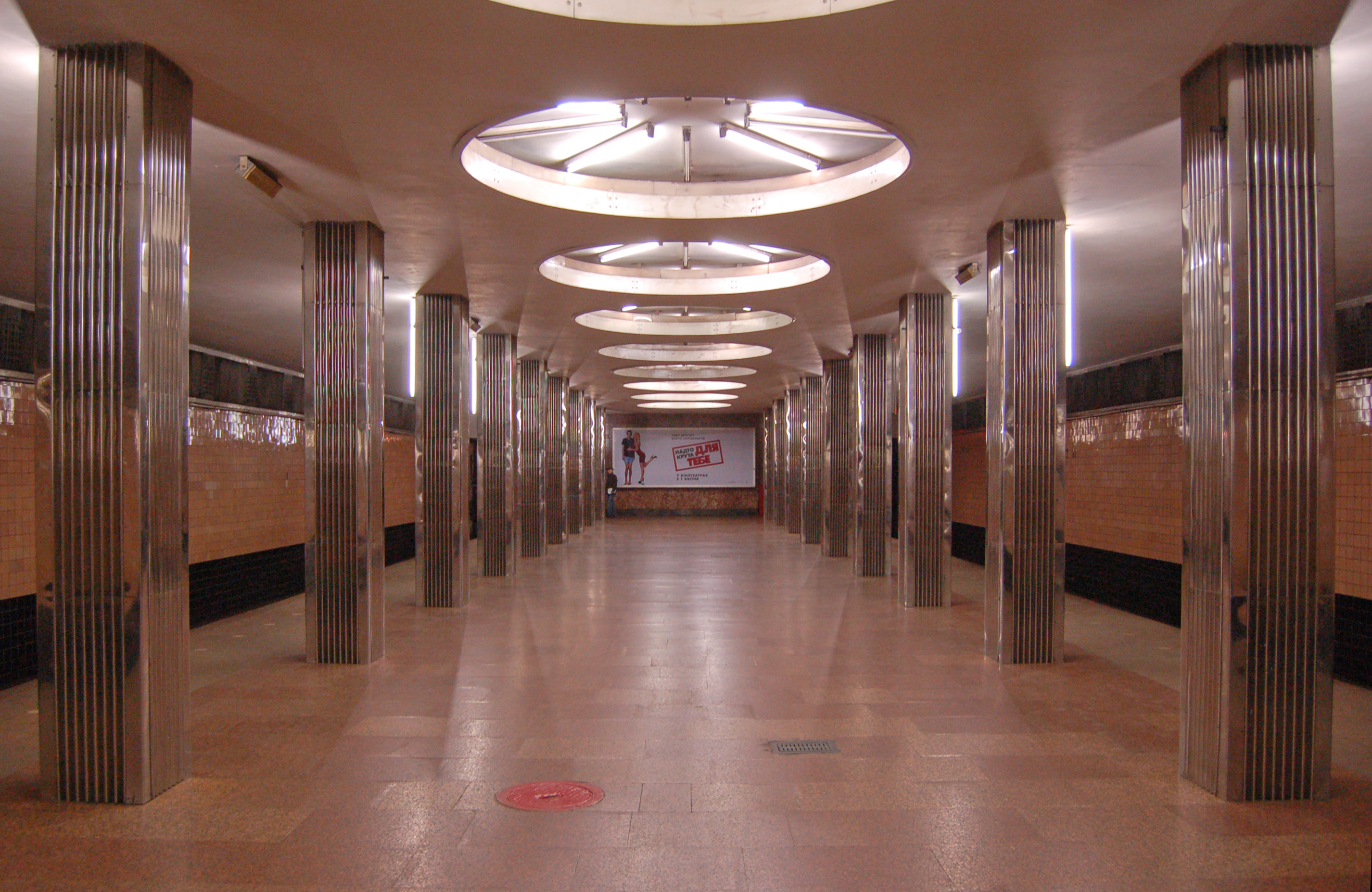 Metro station "Beresteiska" in Kiev, Ukraine